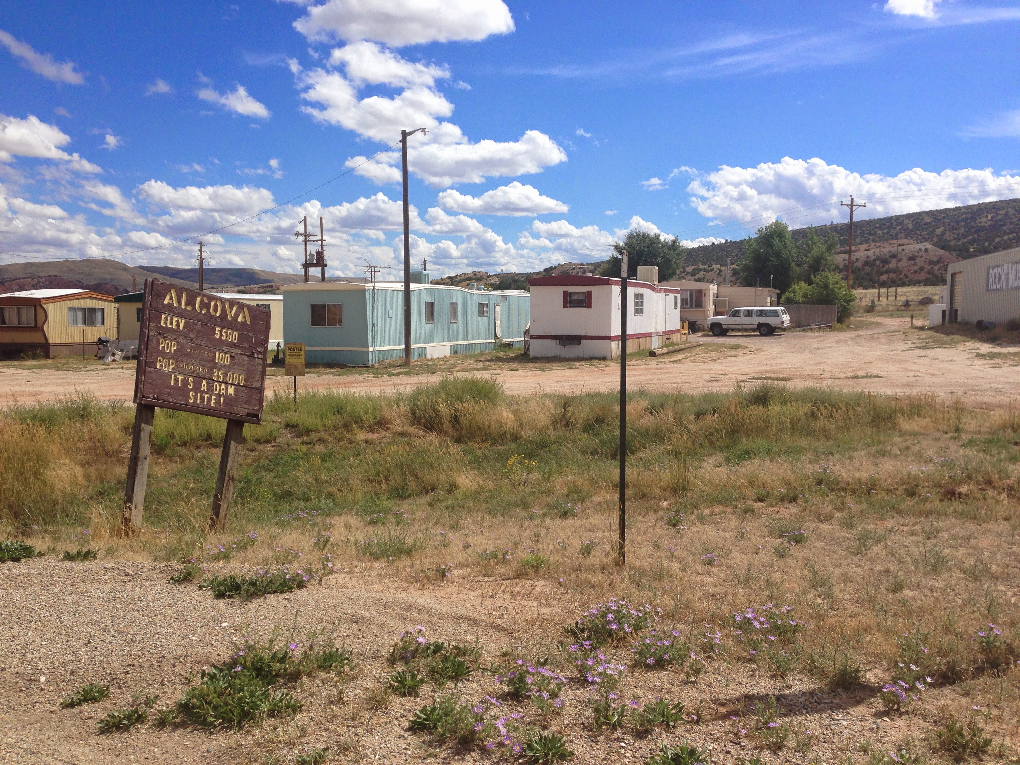 Town in central Wyoming